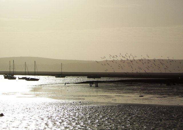 Winter Sunshine at Keyhaven The mudflats are ideal for a large number of wading birds. The outline of the Isle of Wight can be seen in the background.